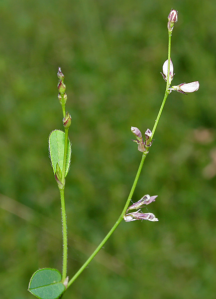 Alysicarpus bupleurifolius in Goa, India.